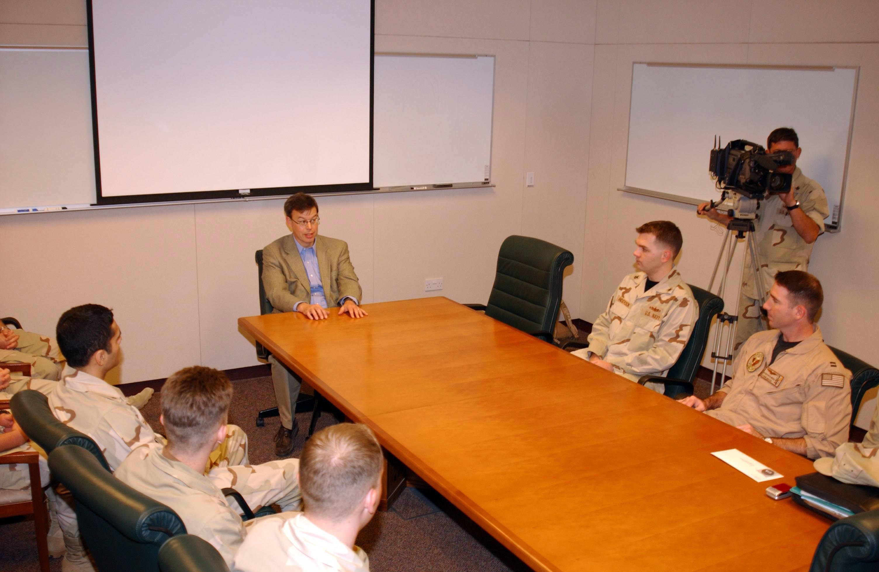 Bahrain (Dec. 2, 2004) - U.S. Senator James Talent (R-MO) addresses a group of Sailors from Missouri on board Naval Support Activity (NSA) Bahrain. Senator Talent discussed various topics with Sailors concerning their military and personal lives. Talent is currently traveling throughout the 5th Fleet area of responsibility meeting with Central Command leaders. U.S. Navy photo Journalist 2nd Class Elton Shaw (RELEASED)